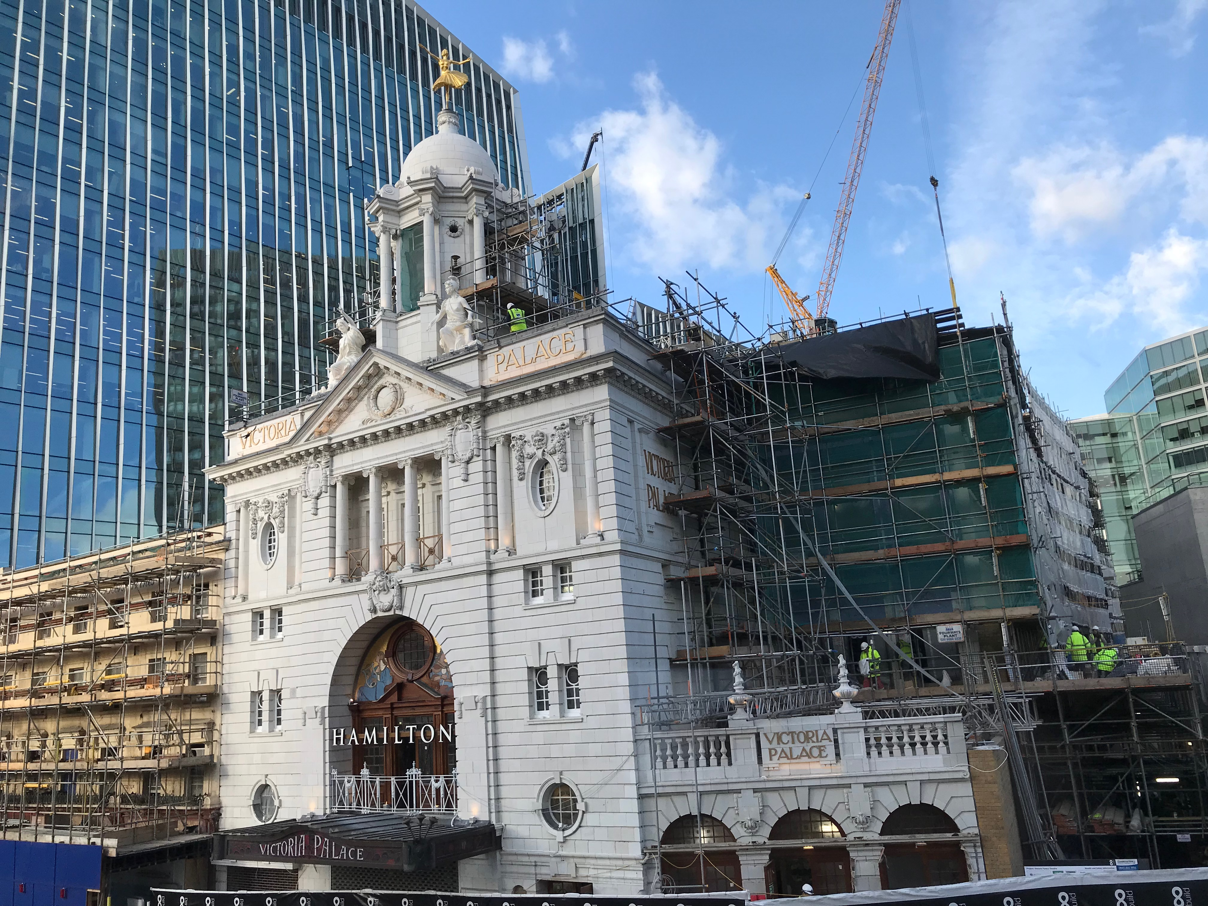 The Victoria Palace Theatre in London, shown as its 20 month refurbishment and rebuilding period nears its end. The faience façade has been cleaned, the original mosaic restored, and a seven-storey extension is almost complete to the side.